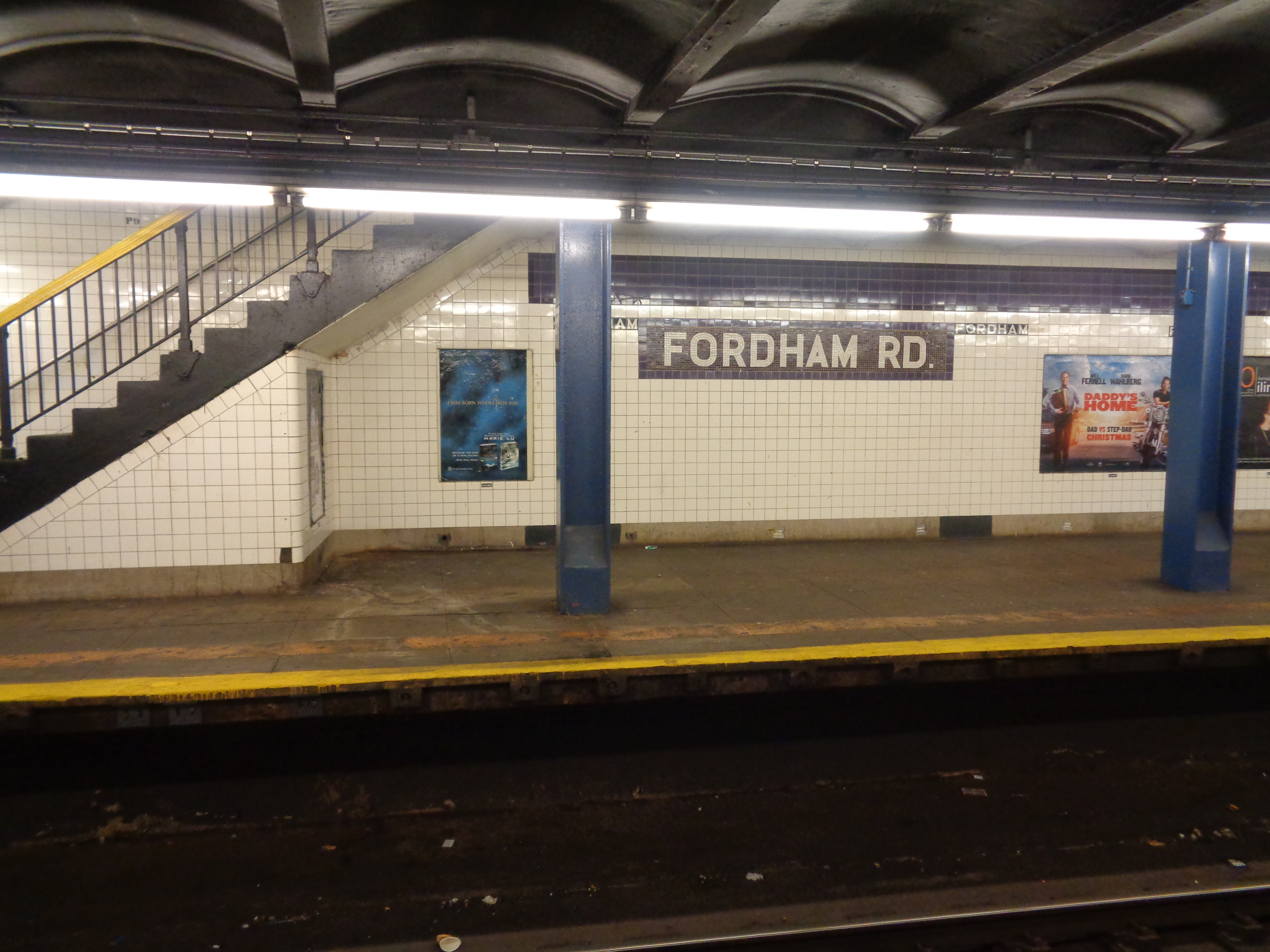 Looking across the Bronx-bound platform and center express track at the north end of the Fordham Road station in the Bronx. The Manhattan-bound platform is split in two at this location.